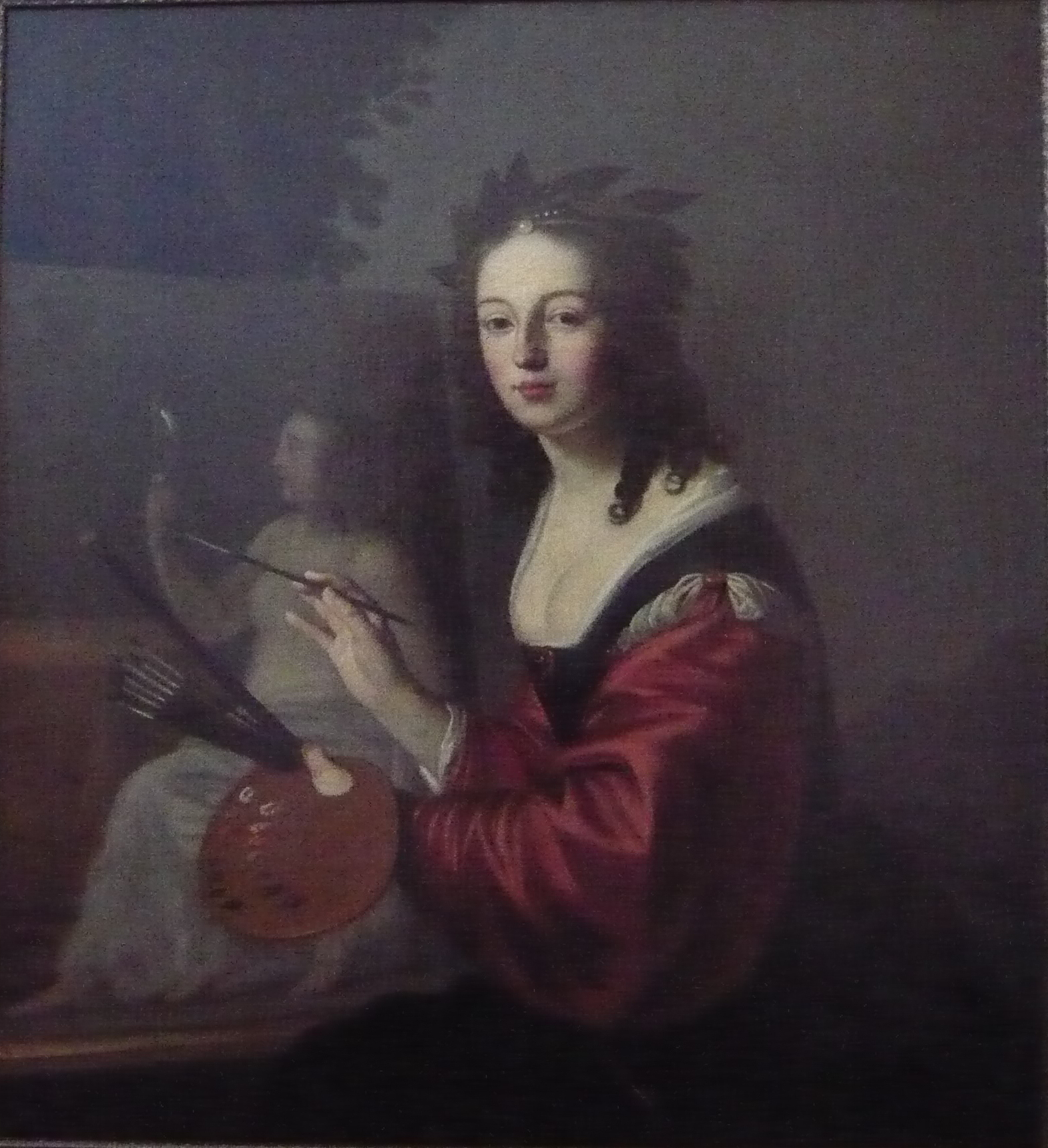 Selfportrait of a unknown woman as artist (Pictura), previously attributed to Hendrick ten Oever and Gesina ter Borch, it is now considered to be by a follower of Gerard van Honthorst, Collection Stedelijk Museum Zwolle. The square shape is reminiscent of the contemporary selfportraits of the Vrouwenhuis just down the road.